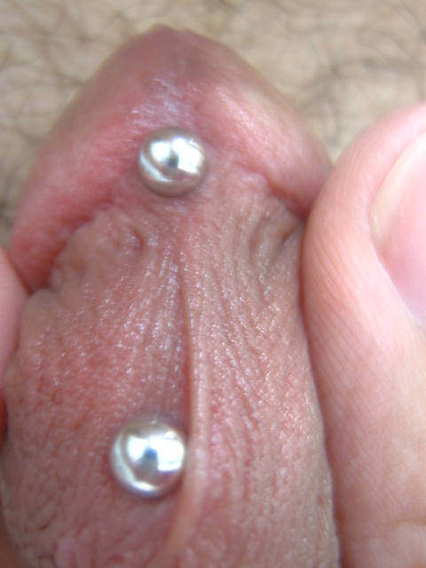 did it myself with a curved mattress needle, alot of blood, and a bit of TLC. :)